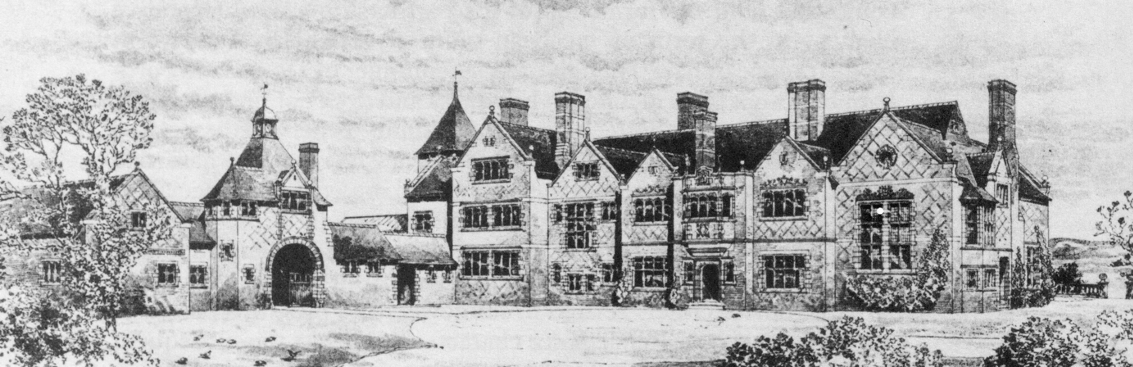 Scanned by the book by me. Drawing of Brocksford Hall, Derbyshire, taken from Building News, 64, 1893, p. 867